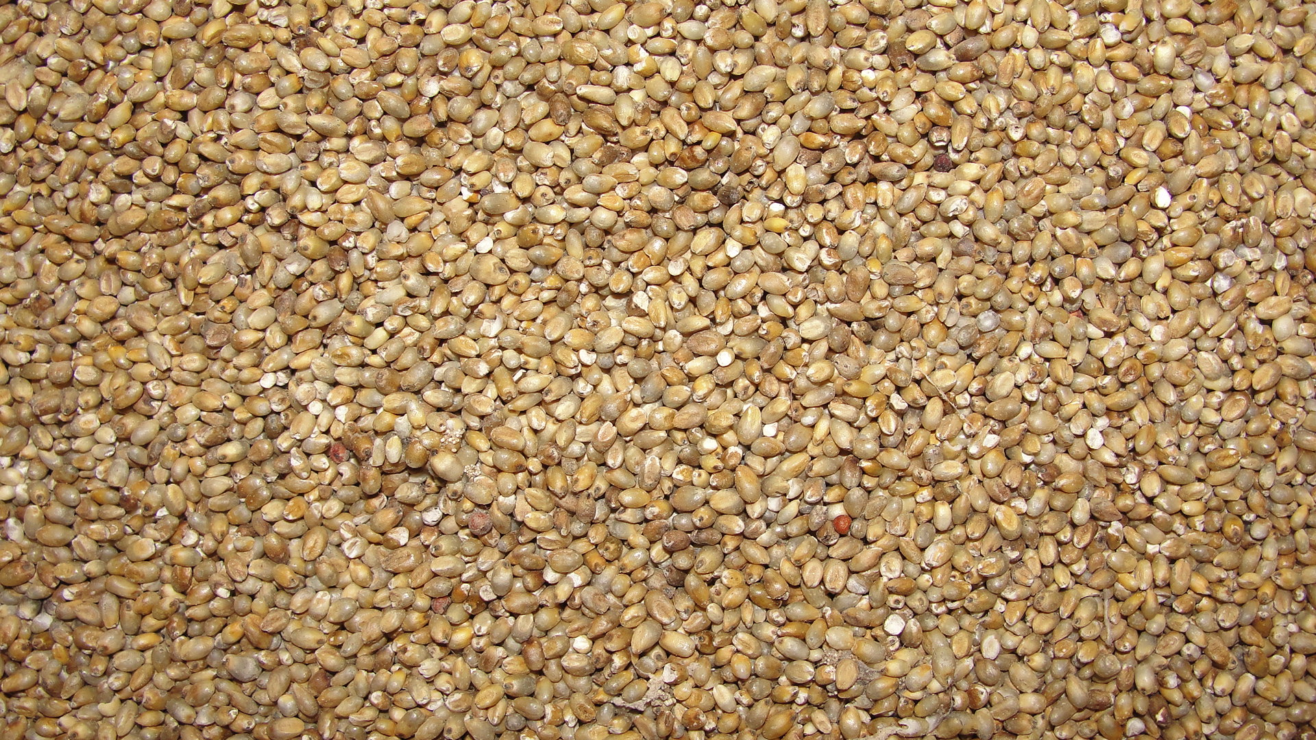 A closeup scene of country pearl millet